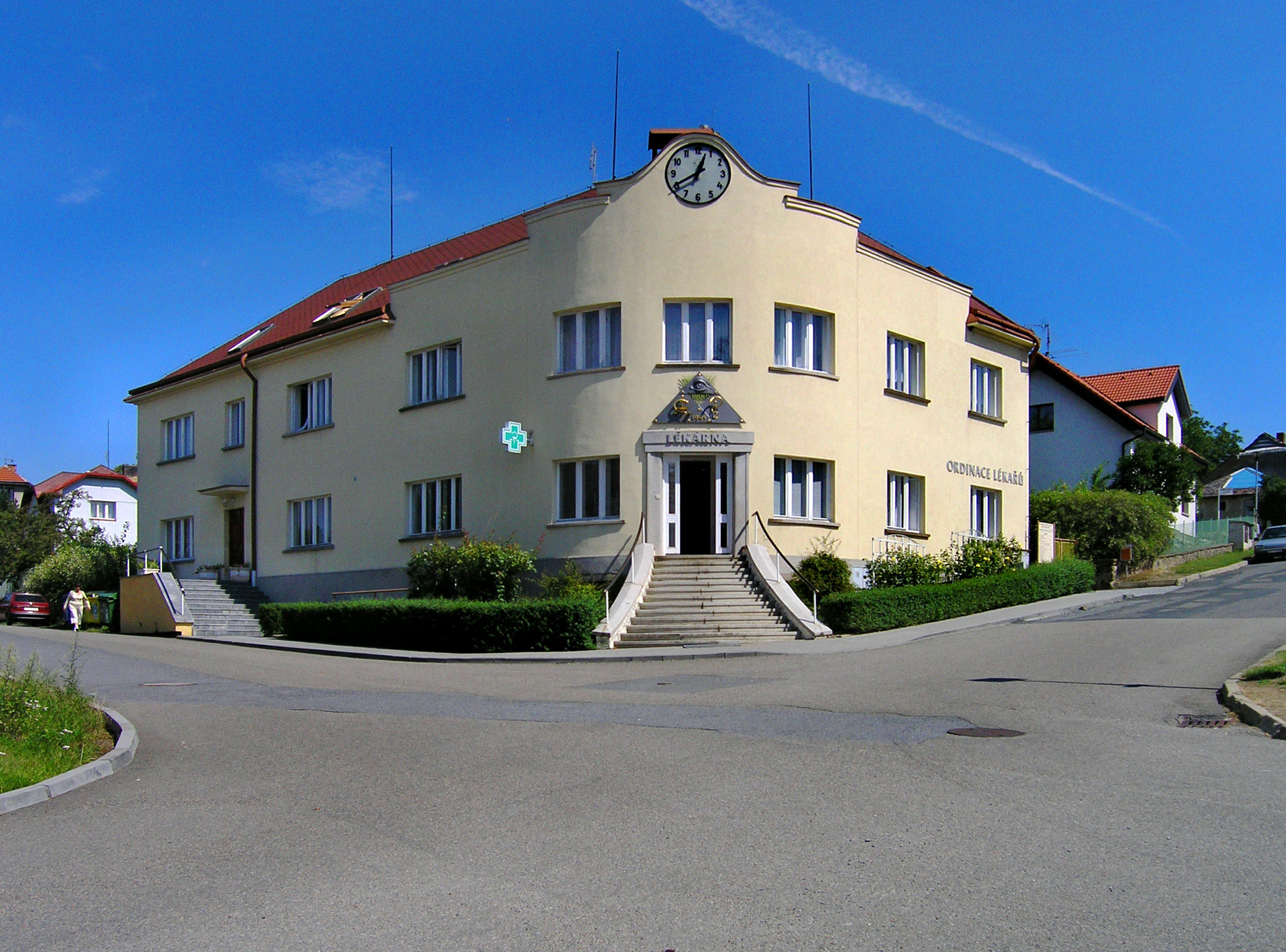 Medical House in Velké Popovice, Czech Republic